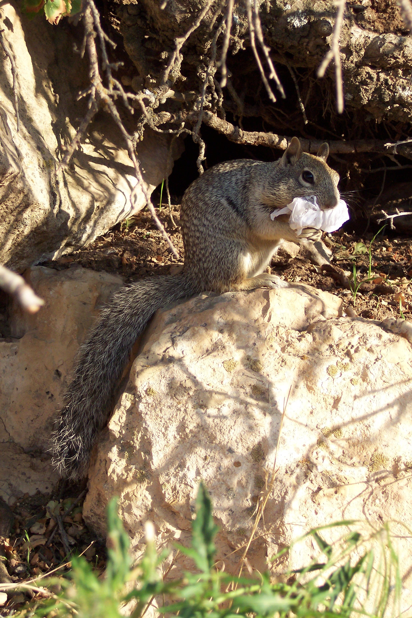 Rock Squirrel in Grand Canyon National Park